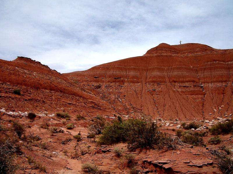 Anacleto fm. (Upper Cretaceous) in Auca Mahuida, Neuquen, Argentina.